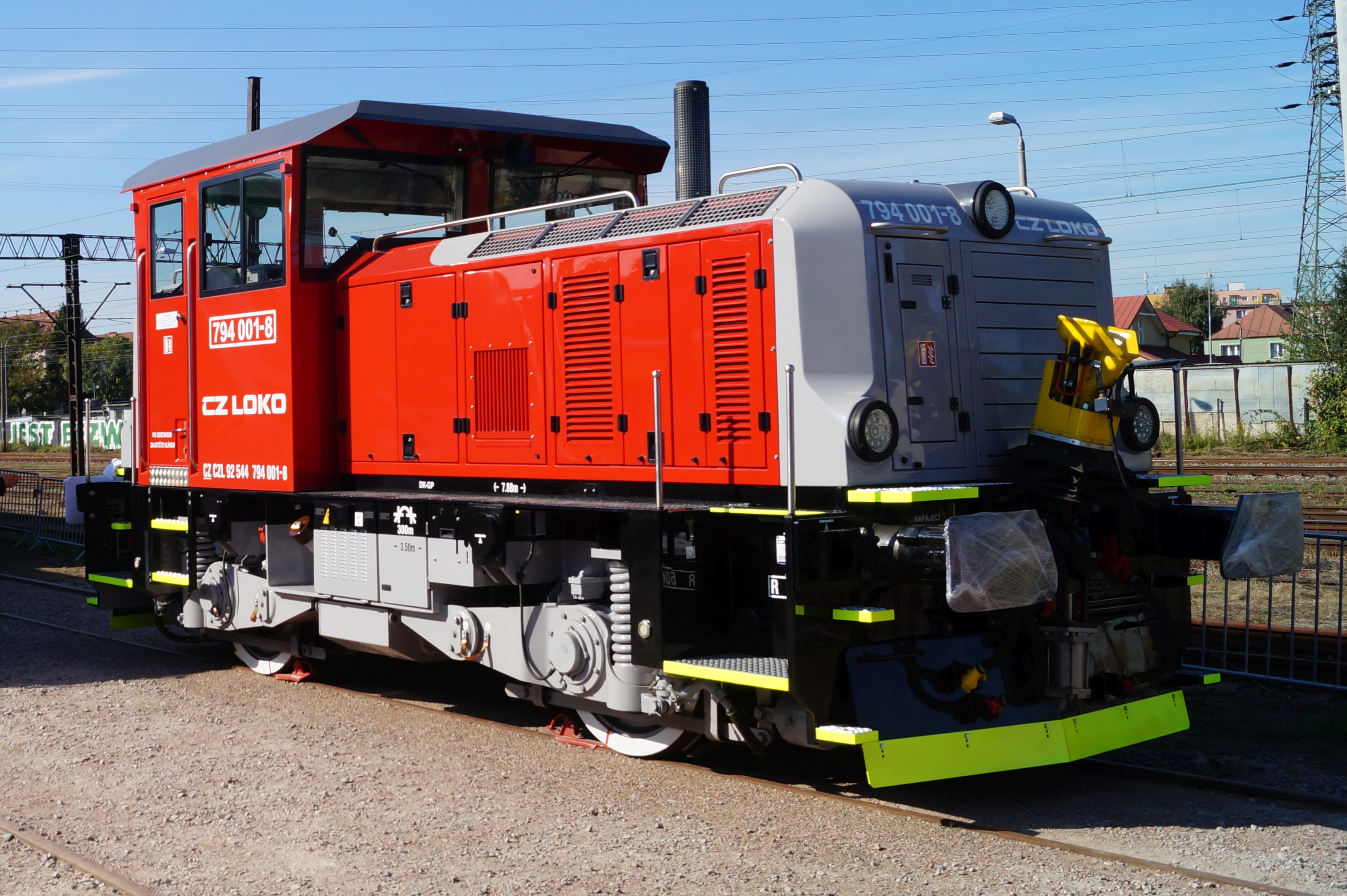 The making of this document was supported by Wikimedia Polska Association, within Wikigrant no. WG 2015-34. Lokomotywa spalinowa serii 794 (CZ LOKO EffiShunter) wystawiana na Targach Trako 2015